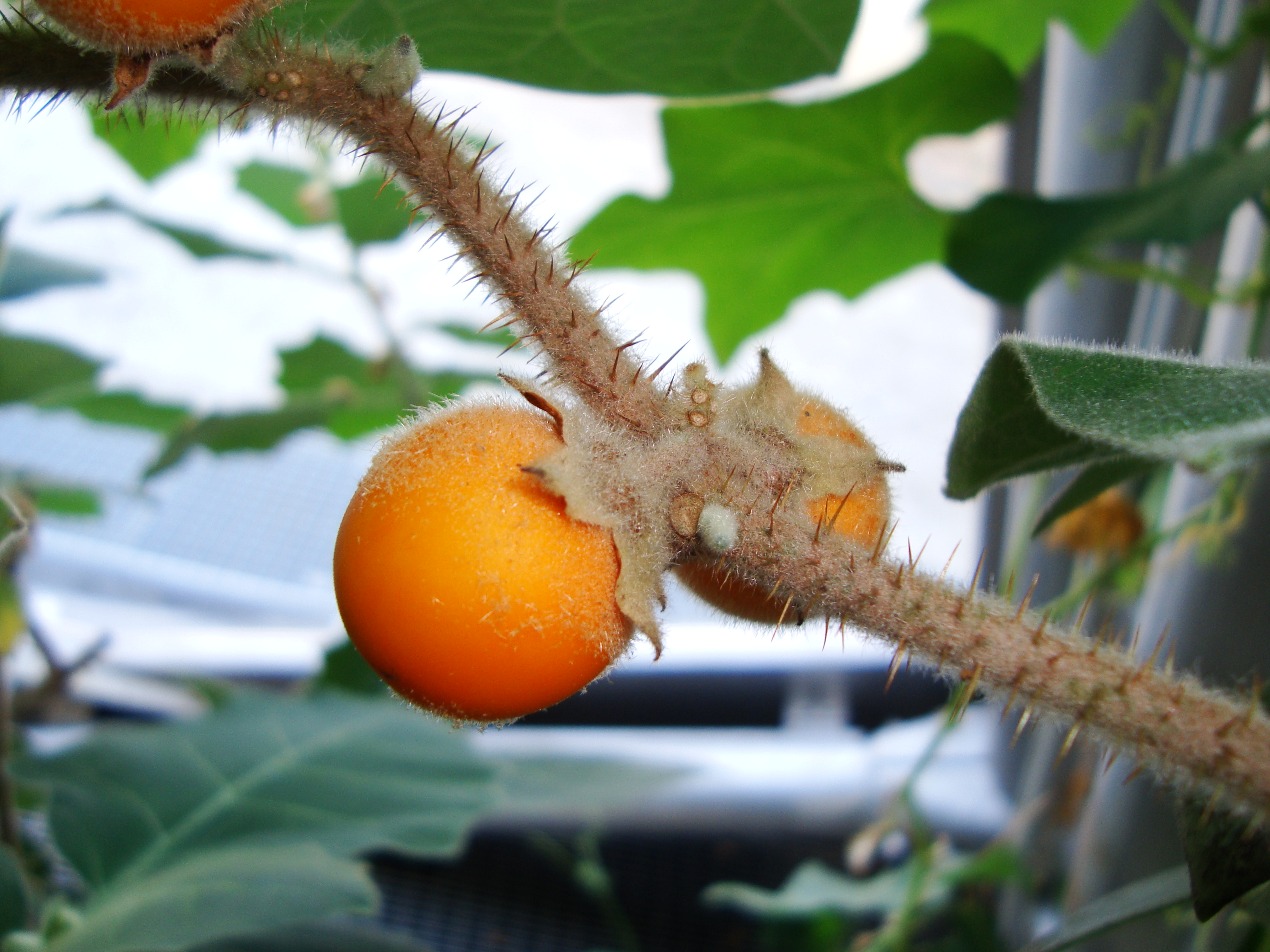 Solanum pseudolulo, fruits (botanical garden, Graz Austria